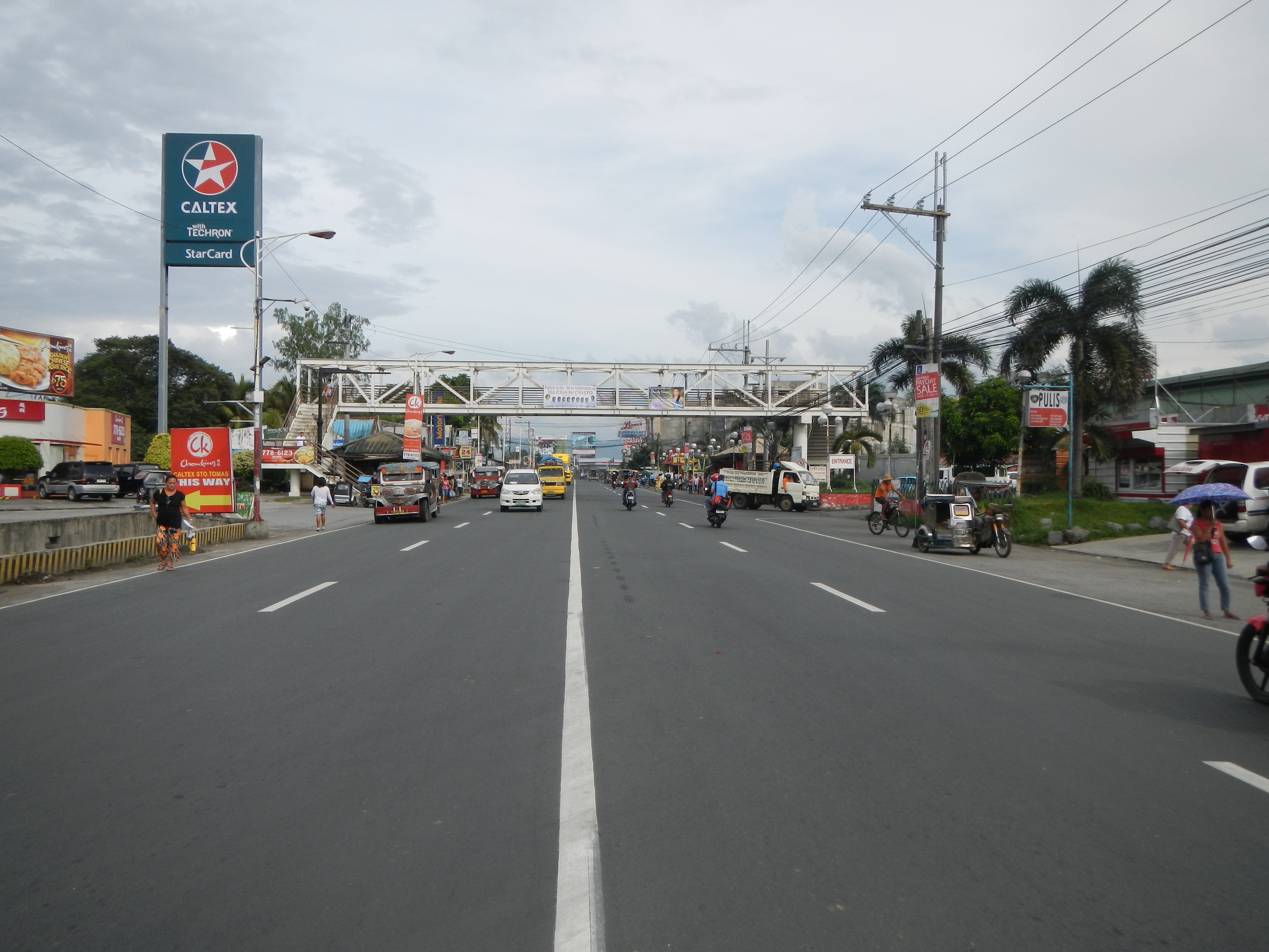 Maharlika Highway, (Pan-Philippine Highway[1]( The Pan-Philippine Highway, also known as the Maharlika "Nobility/Free People") - Mount Makiling[2] -- Barangay San Antonio, Santo Tomas, Batangas[3] Website --- Santo Tomas (also spelled as Sto. Tomas) is a first class municipality in the province of Batangas,[4] Philippines. According to the 2010 census, it has a population of 123,668 people. The town is a gateway to the province from Laguna. This is also the hometown of Philippine Revolution and Philippine-American War hero Miguel Malvar.[5] The patron of Santo Tomas is Saint Thomas Aquinas,[6] patron of Catholic schools celebrates his feast day every 7 March.Election Results 2013 Santo Tomas mayoral bet Edna Sanchez accused of vote-buying [7] Coordinates: 14°3'44"N 121°10'24"E Geographical location: Batangas, Region 4, Philippines, Asia Geographical coordinates: 14° 6' 33" North, 121° 8' 31" East This place is situated in Batangas, Region 4, Philippines, its geographical coordinates are 14° 6' 33" North, 121° 8' 31" East and its original name (with diacritics) is Santo Tomas. [8]